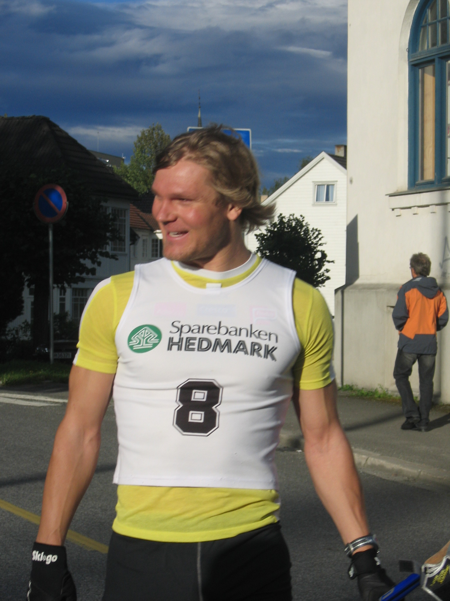 The Norwegian cross-country skier Øystein Pettersen under Kirkebakken Grand Prix 2007 in Hamar, Norway.